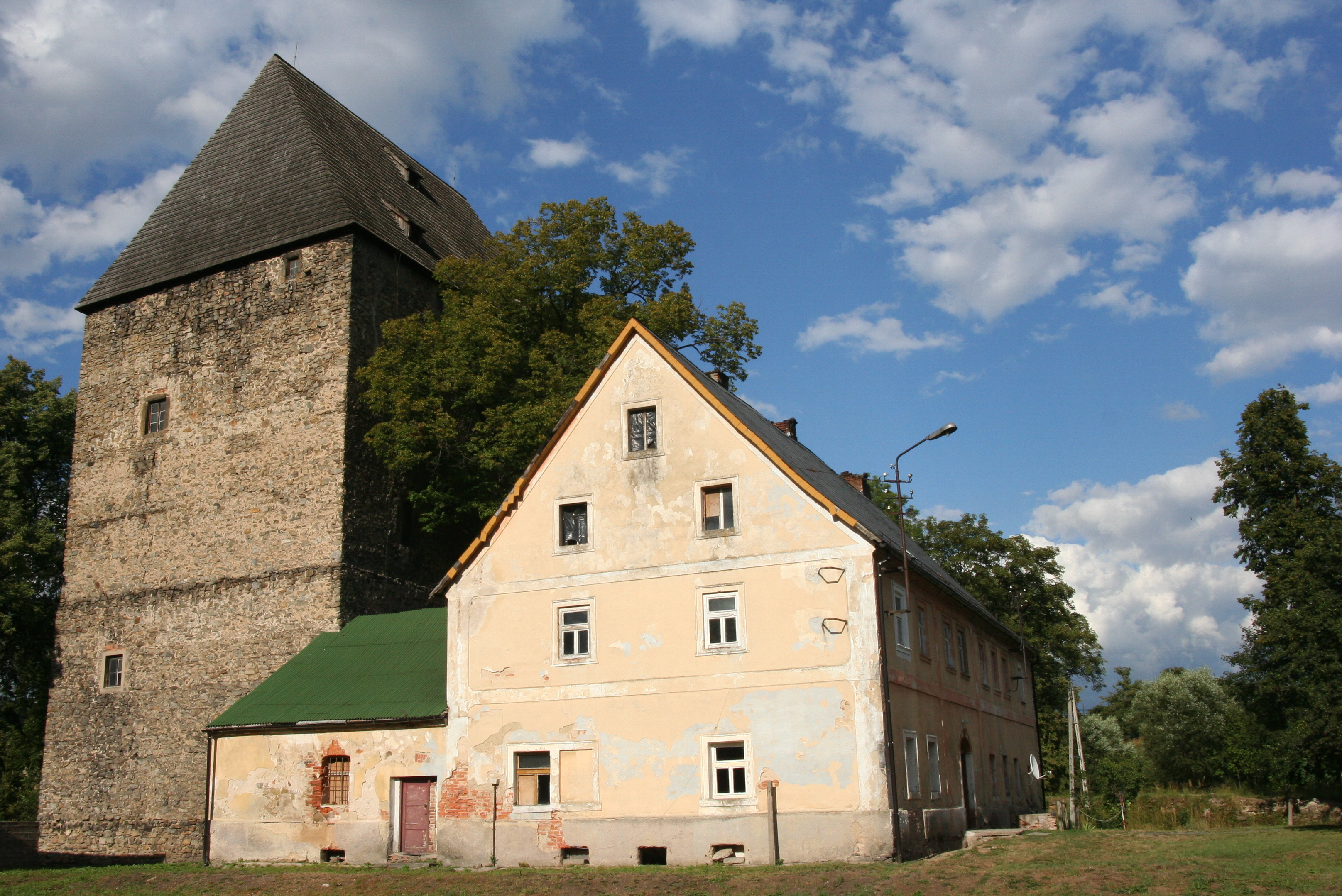 Medieval tower from 14th century (high, stone building) and adjacent house (late 18th century), Siedlęcin near Jelenia Góra, Lower Silesia, Poland.